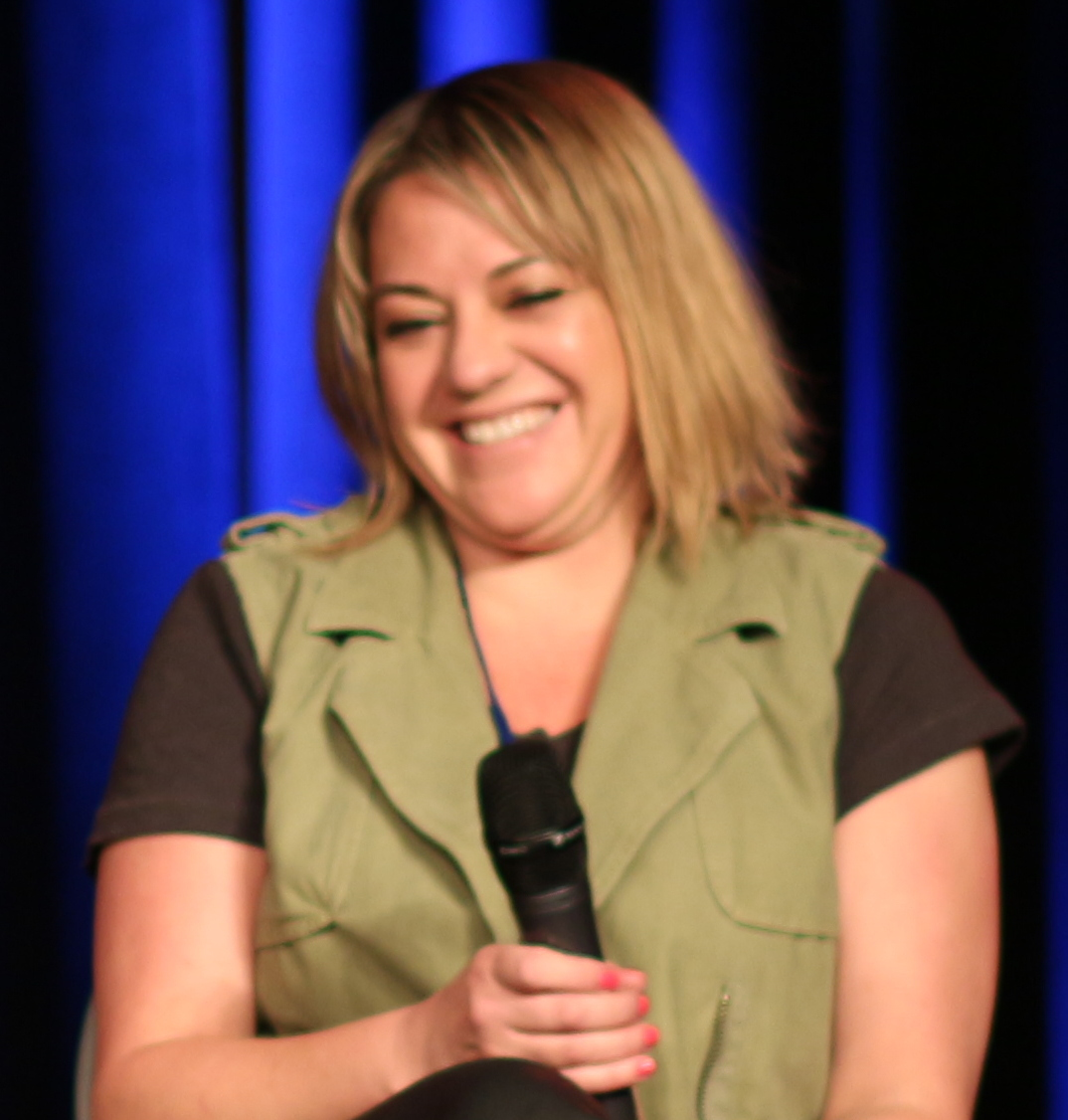 Magic City Comic Con 2015